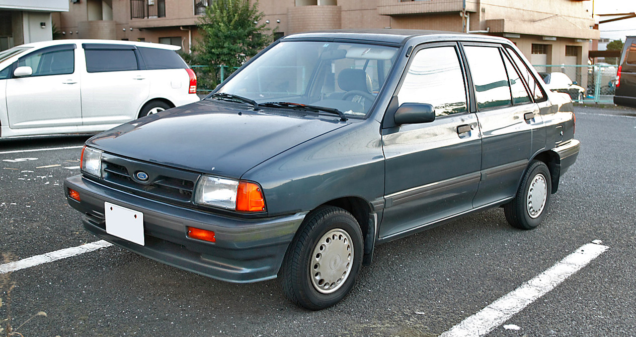 Ford Festiva β, manufactured by Kia Motors.